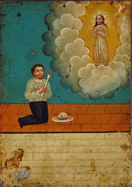 Ex-voto attributed to the Almond Eye Painter, oil on metal, 10 x 7 inches